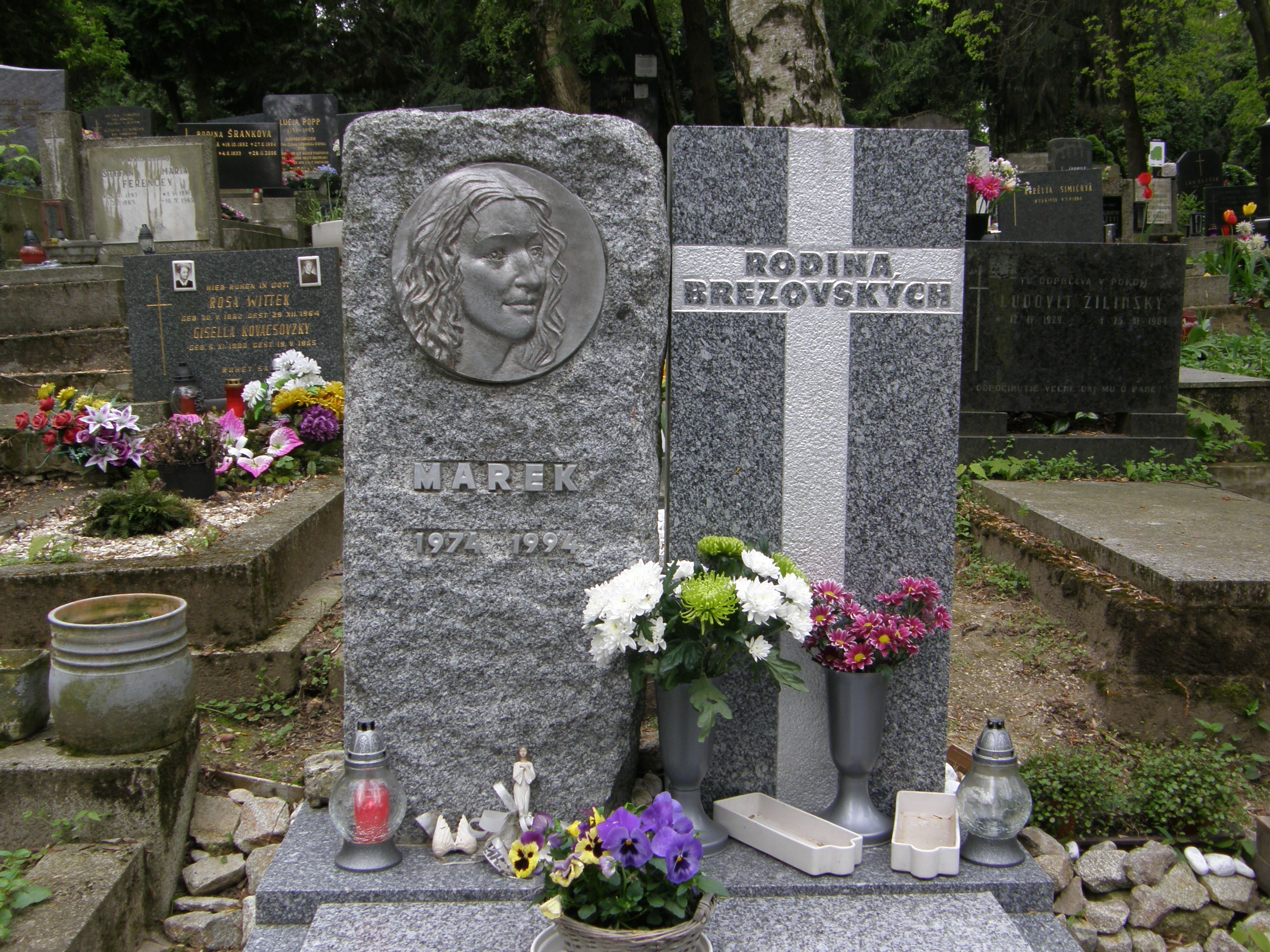 Grave of Marek Brezovský, Slávičie údolie cemetery, Bratislava.